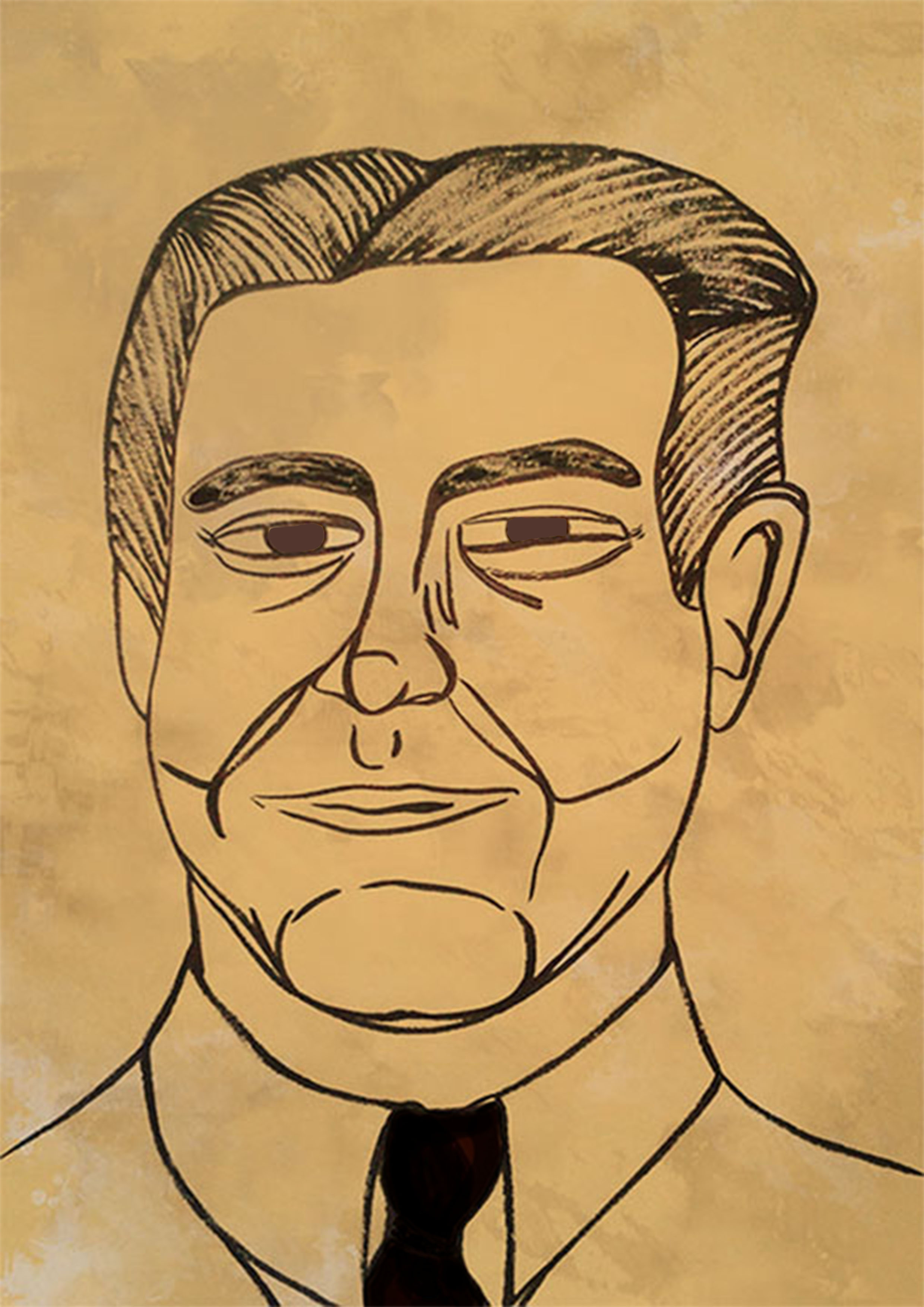 Portrait of Peter Masters and Albet (1901-1975). Professor of electrical expert, founder of ERC (Republican Left of Catalonia), Minister of Interior of the Government of Catalonia (October, 1933 - December, 1933) and Public Works and Health (1933-1936). Approximate age of the picture: 33 years. Technique: Japanese ink and watercolors. This image was provided to Wikimedia Commons as a contribution from an Art&Design School thanks of a collaboration between Llotja and Amical Wikimedia.